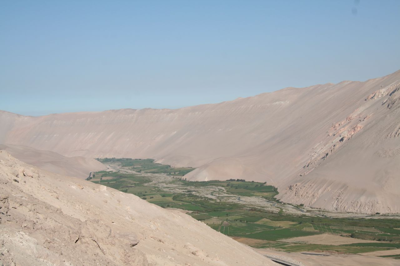 I think this is Azapa Valley or its parallel neighbour. The river flows from the mountains through the driest desert on earth.